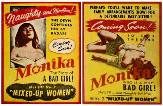 Posters for the 1956 American recut version of the Swedish film Sommaren med Monika (English title: Summer with Monika) (1953), which was retitled Monika, the Story of a Bad Girl. One poster also has a listing for the American exploitation film One Too Many (1950) under its alternate title Mixed-Up Women.